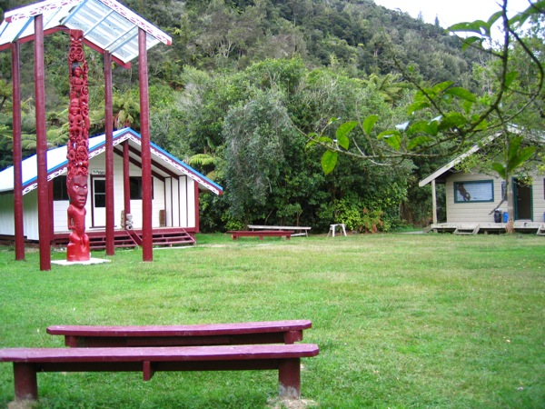 The marae and DOC hut at Tieke Kāinga, upper Whanganui River, New Zealand